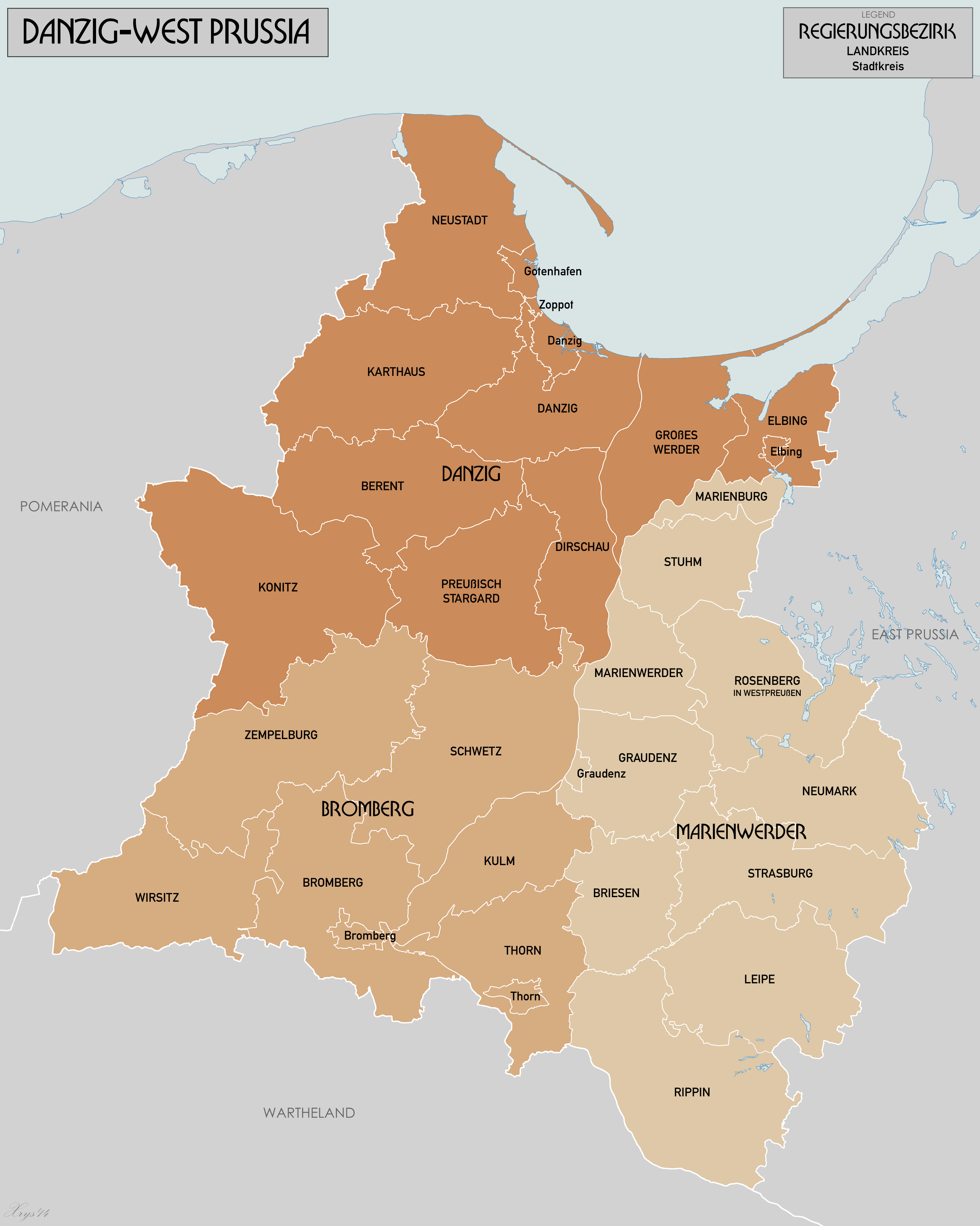 Administrative map of Reichsgau Danzig-West Prussia in 1944. Map data digitised from Karte des Deutschen Reiches 1:100k, Karte von Mitteleuropa 1:300k, Topographisches Karte 1:25k. Some source maps from WIG (